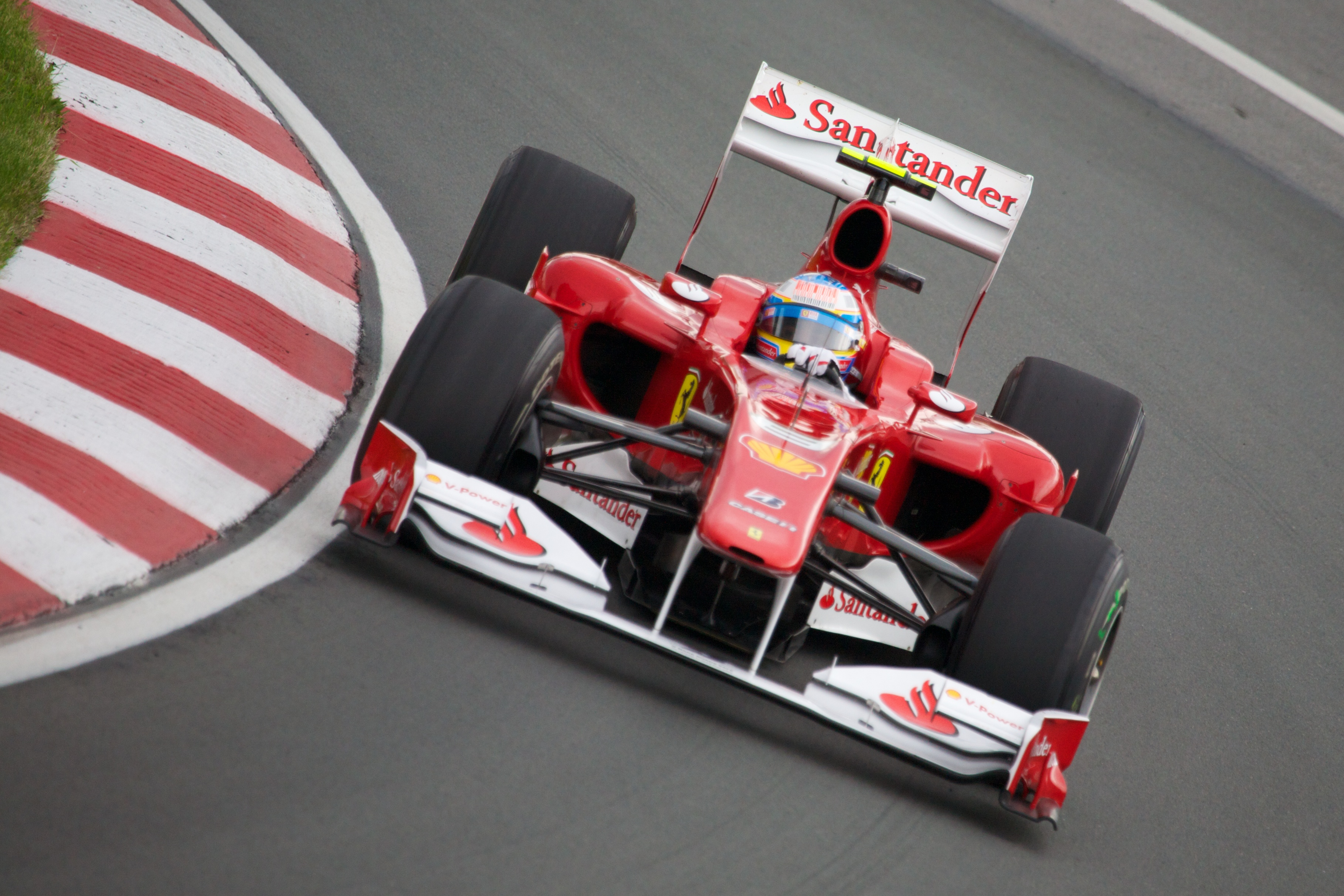 Fernando Alonso in his Ferrari.